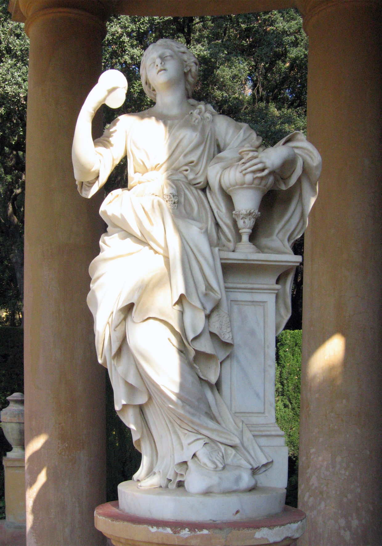 Sculpture of Artemis in Labyrinth Park of Horta, Barcelona, Catalonia, Spain